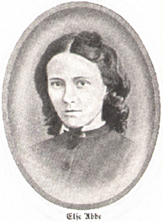 Portrait of Else Abbe, the wife of Ernst Abbe.